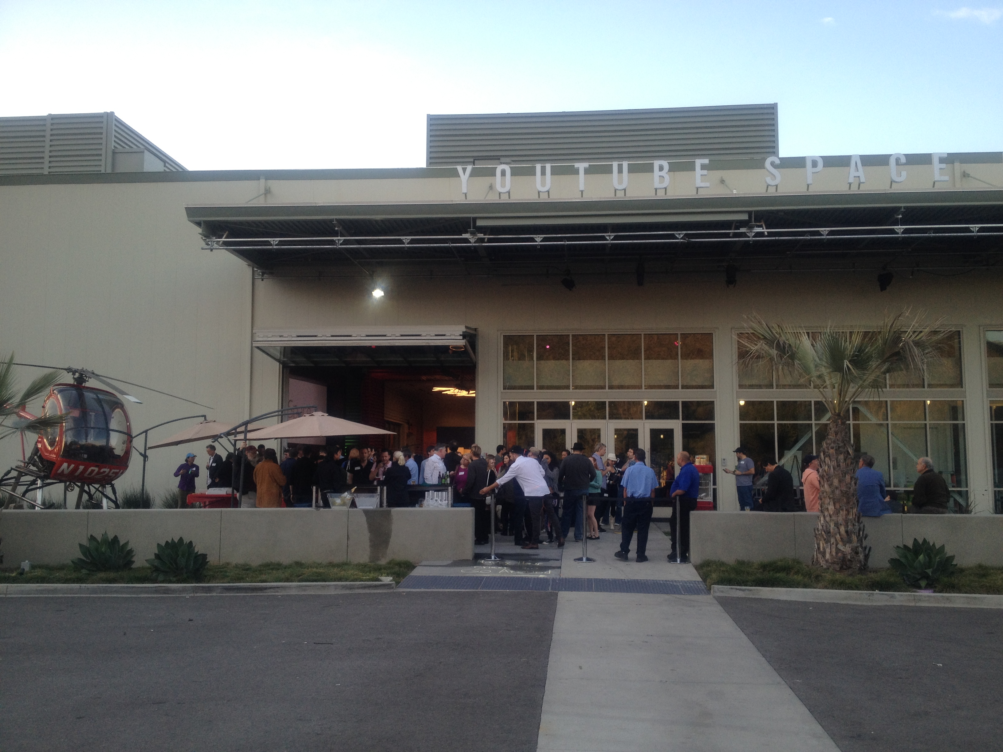 Aidios YouTube Space LA! Thanks for the fun mixer and tour!